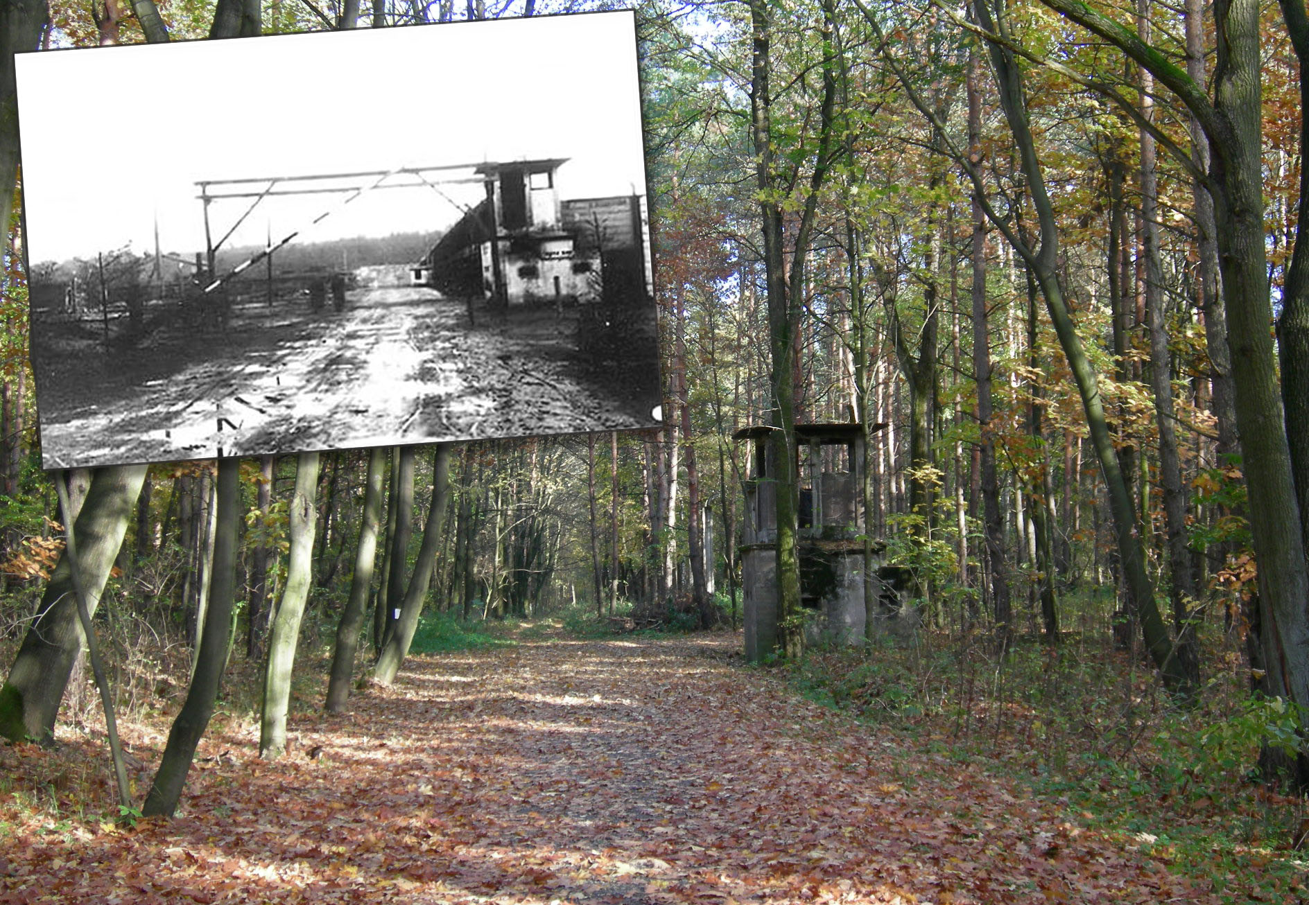 Former entry of the Blechhammer Judenlager Auschwitz sub-camp in Sławiecice (former Ehrenforst) Poland.